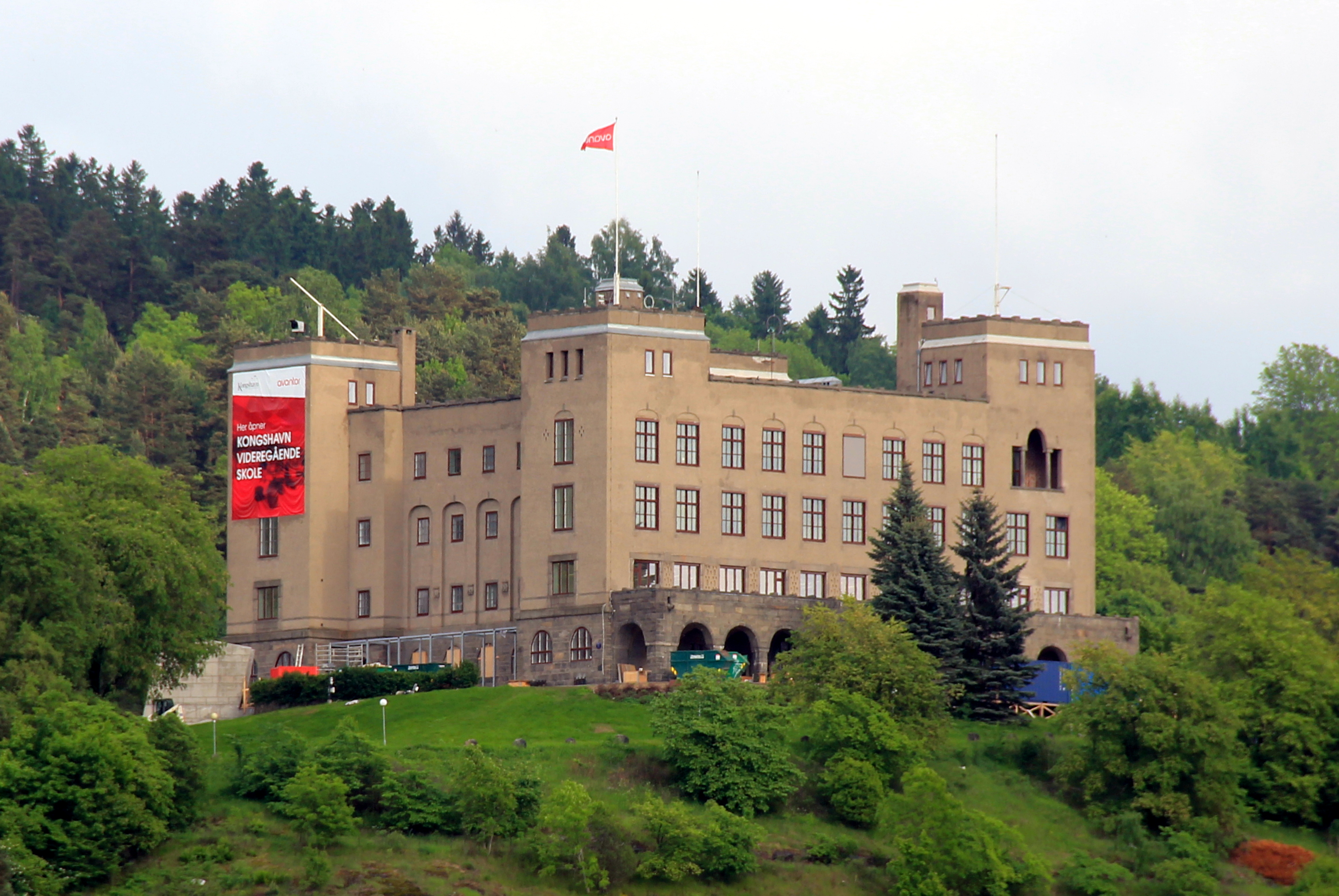 Kongshavn upper secondary school, Oslo